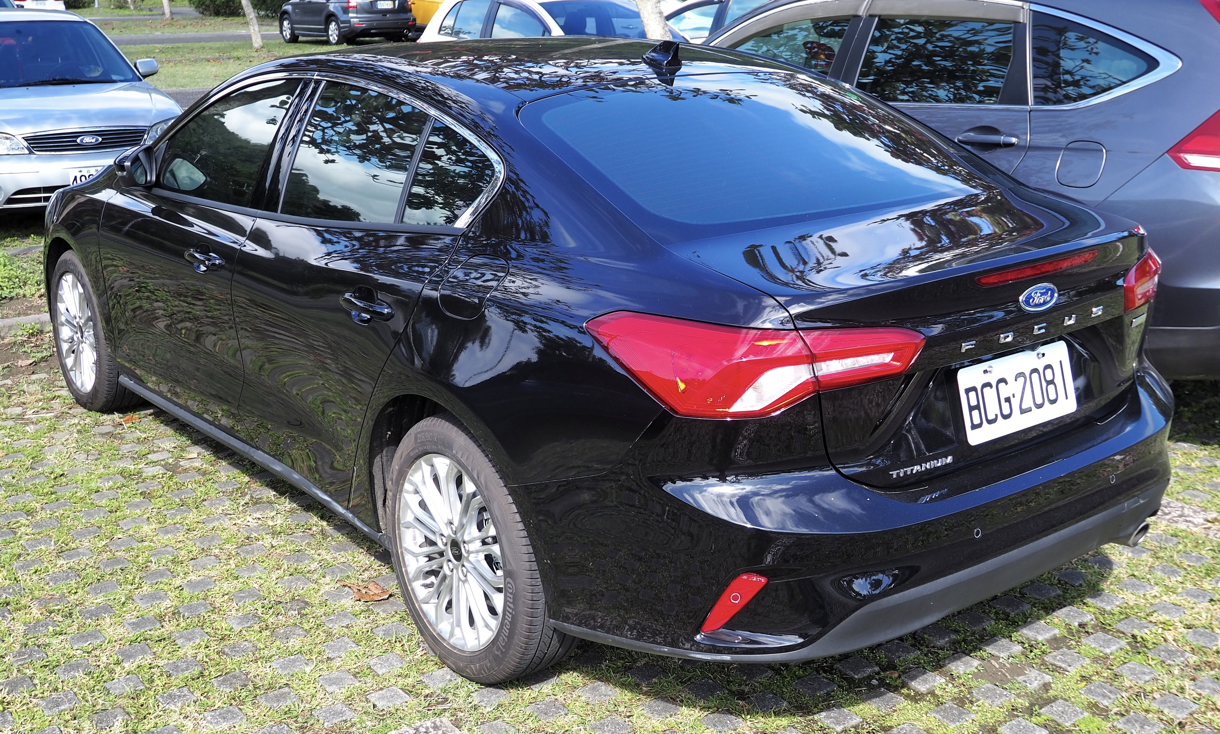 A 2018 Ford Focus sedan photographed in Toucheng Township, Yilan County, Taiwan.